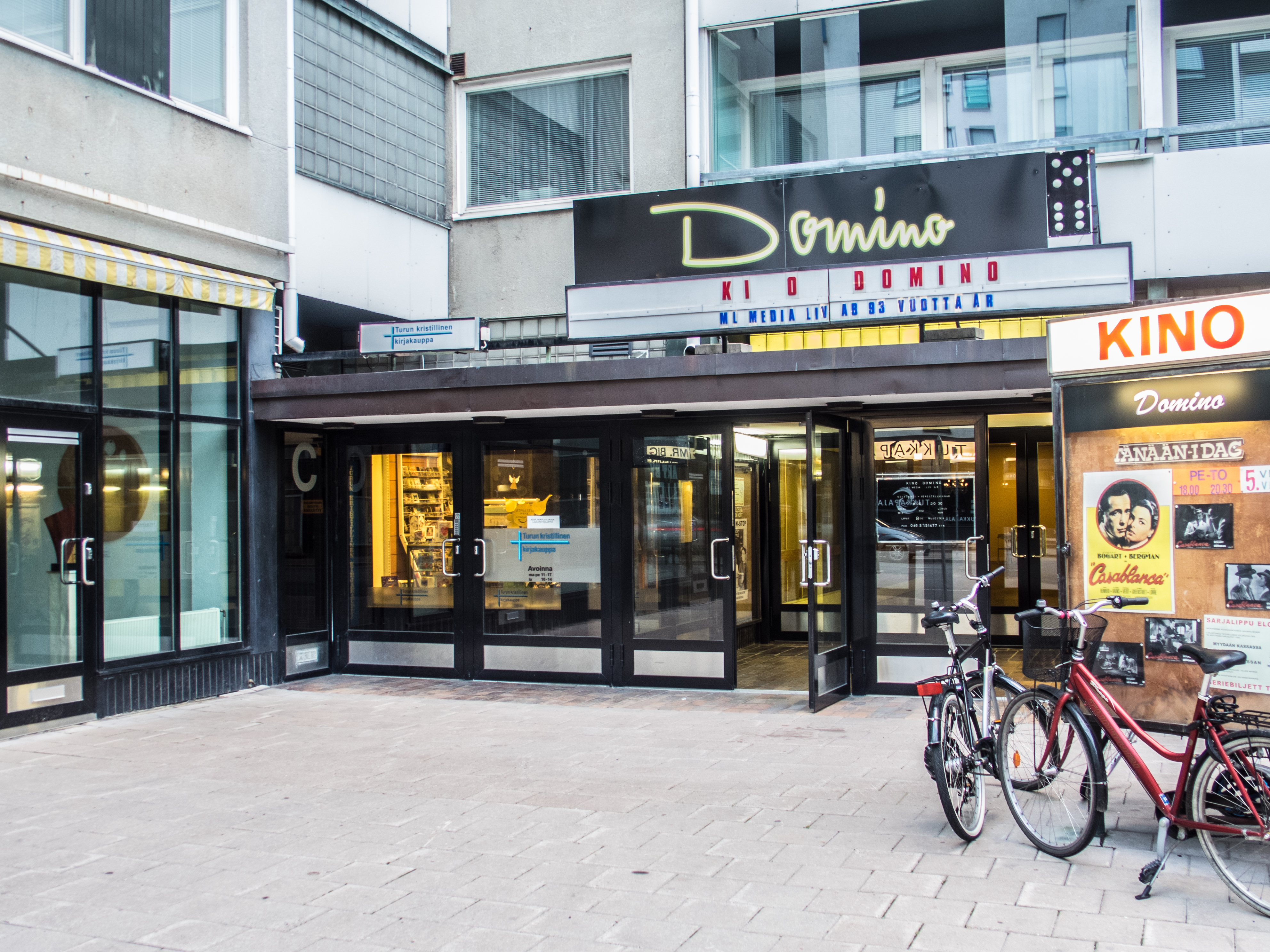 Entrance to the Domino cinema on Humalistonkatu, the oldest remaining in Turku, started in the mid-1950s